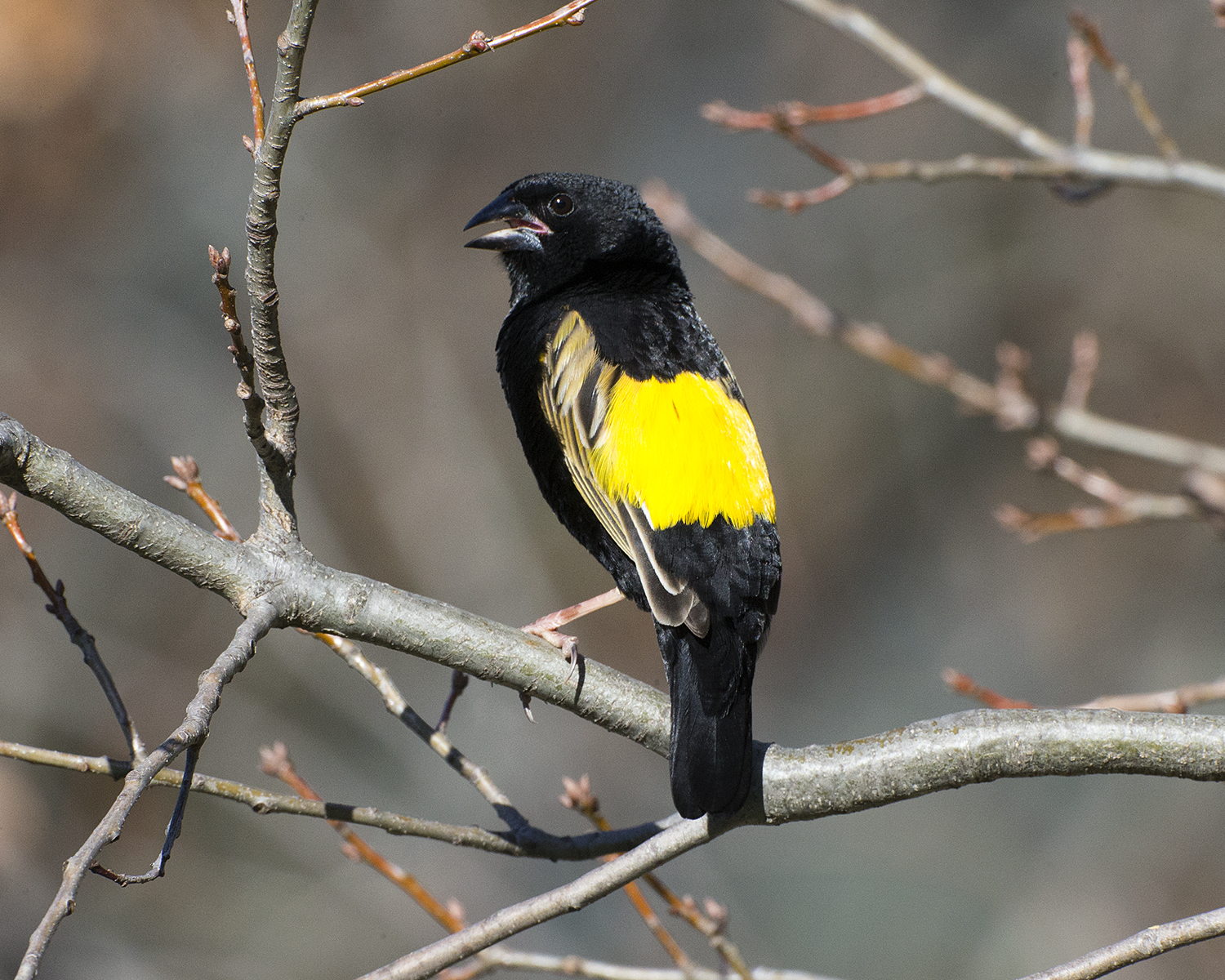 Yellow Bishop (Euplectes capensis) male, ssp capensis, Hottentots Holland Mountains, South Africa 16th. August 2016 CF2P4985